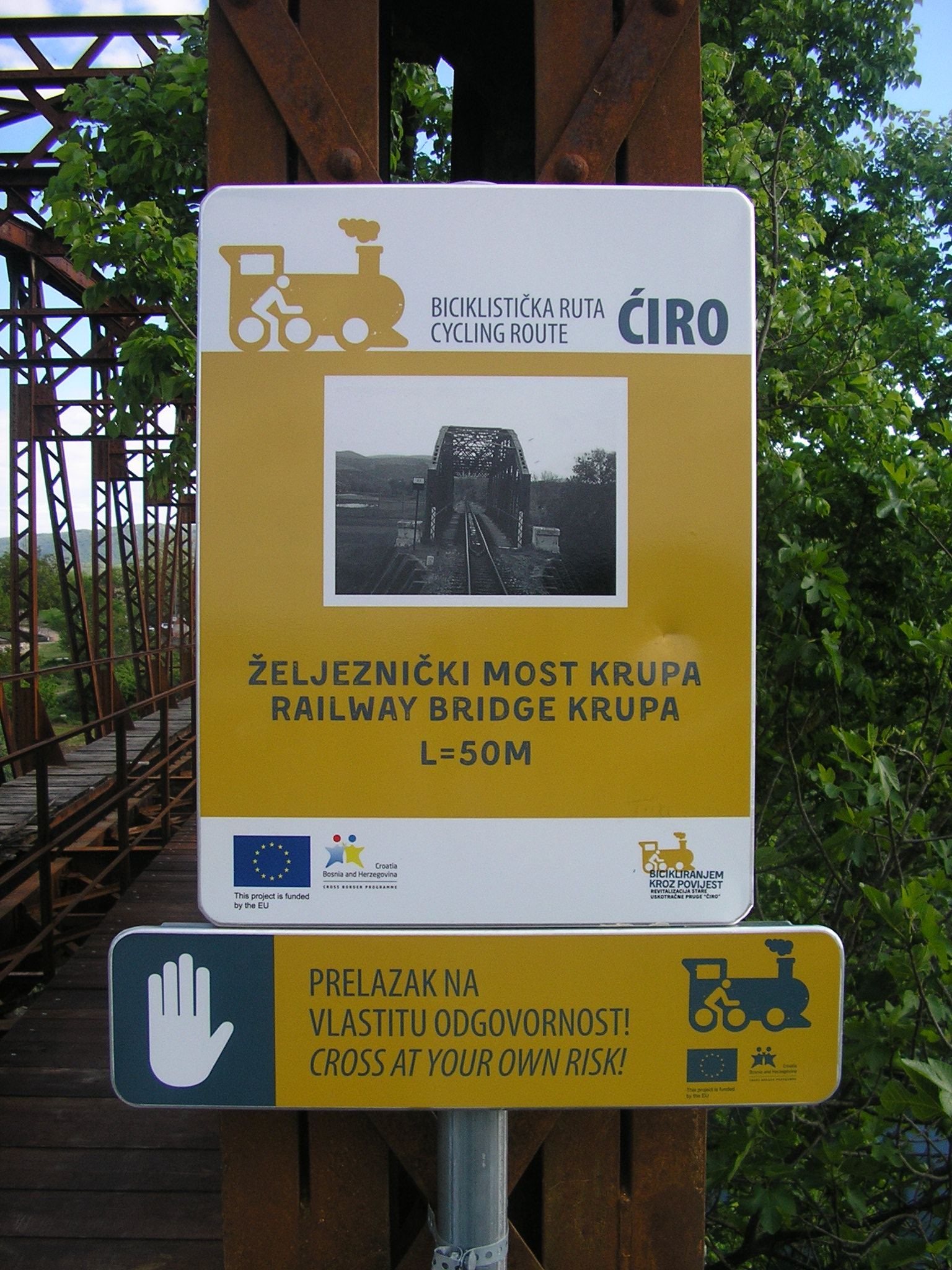 Krupa bridge